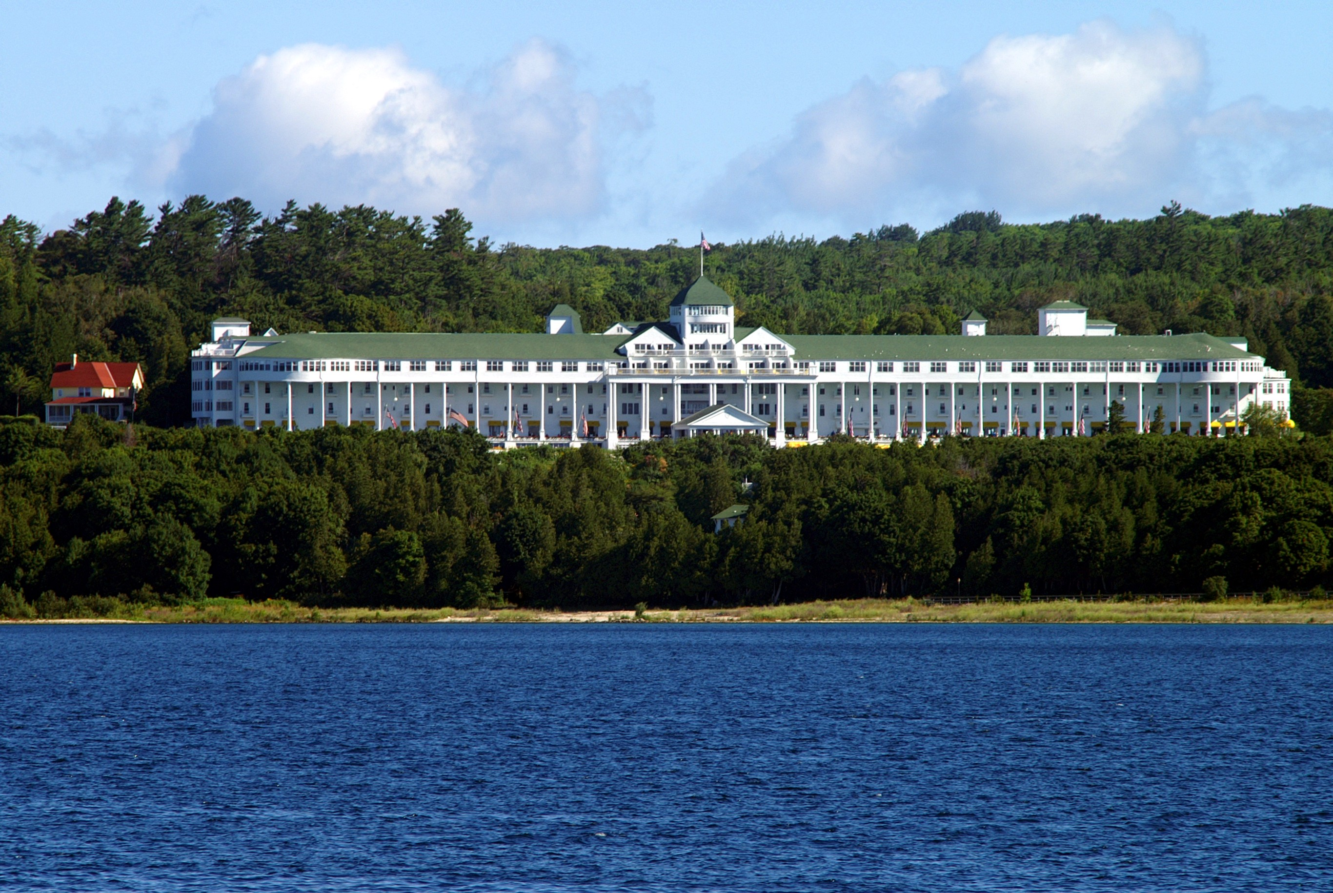 The Grand Hotel on Mackinac Island, Michigan USA